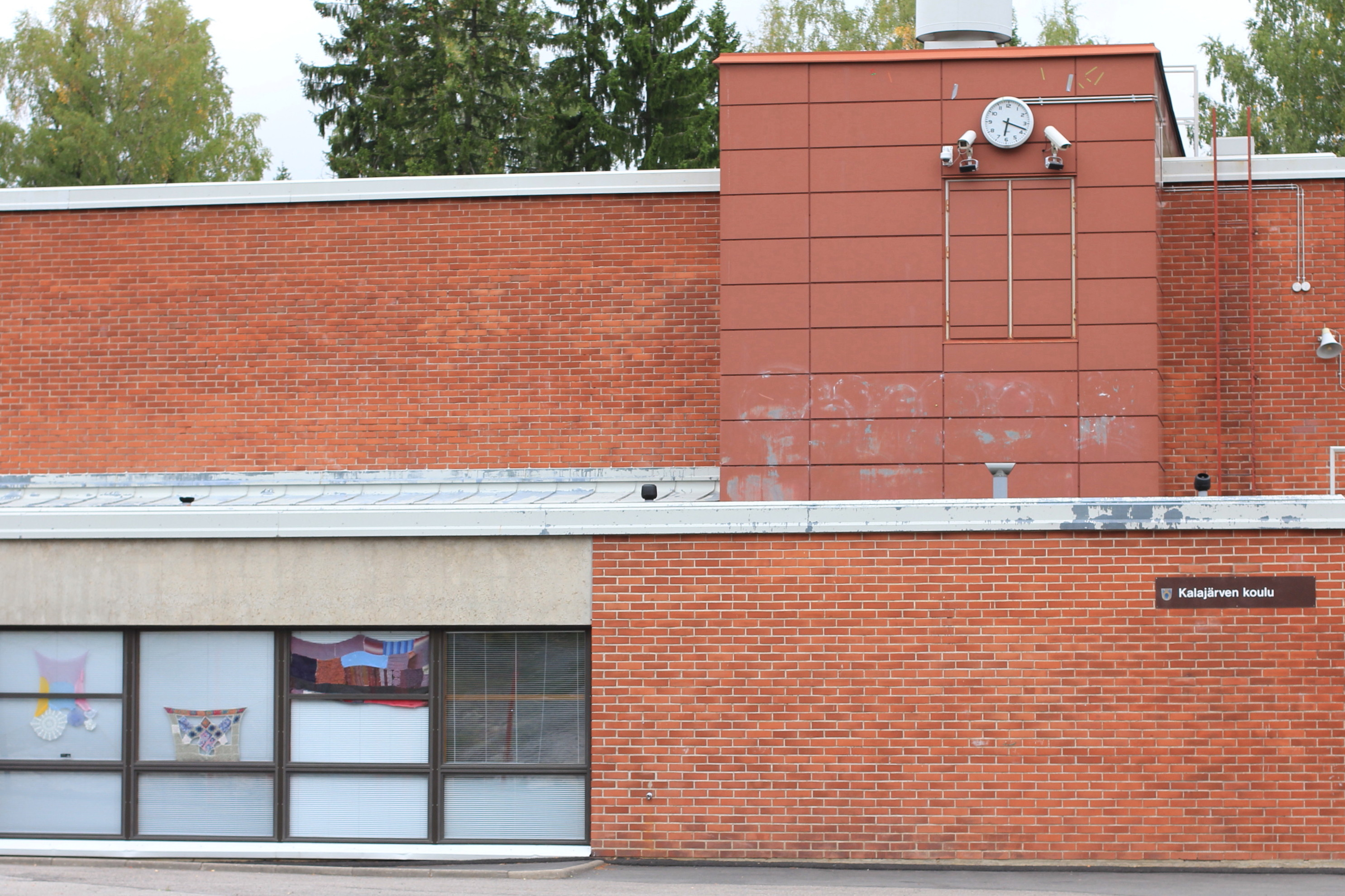 Kalajärvi school, Espoo, Finland. - School building built in 1970's.